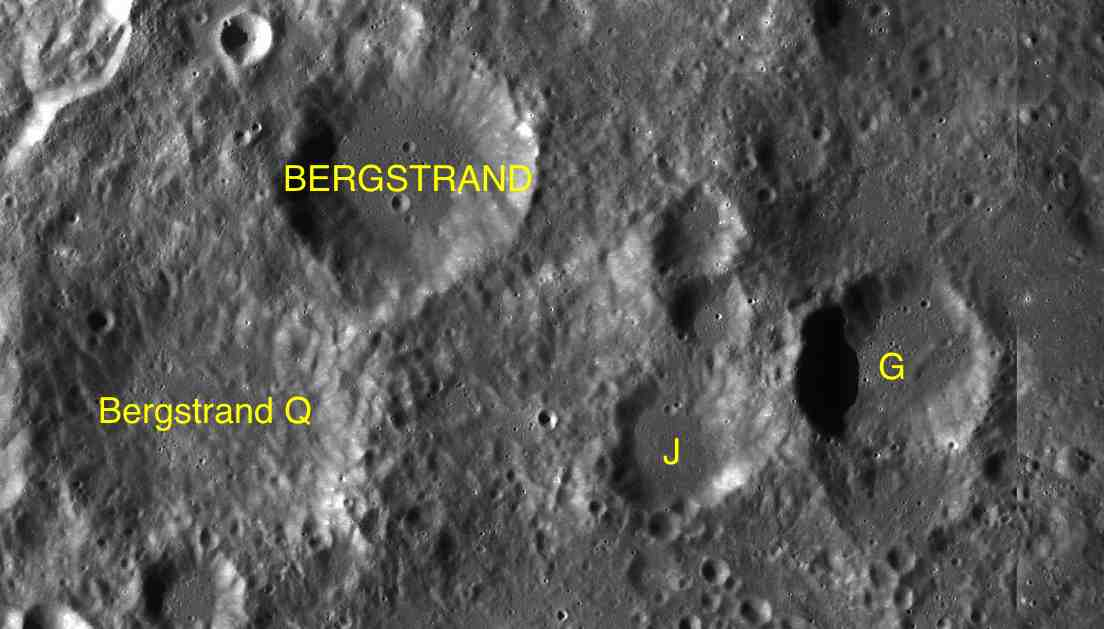 Part of the chart LAC-104 used for the presentation